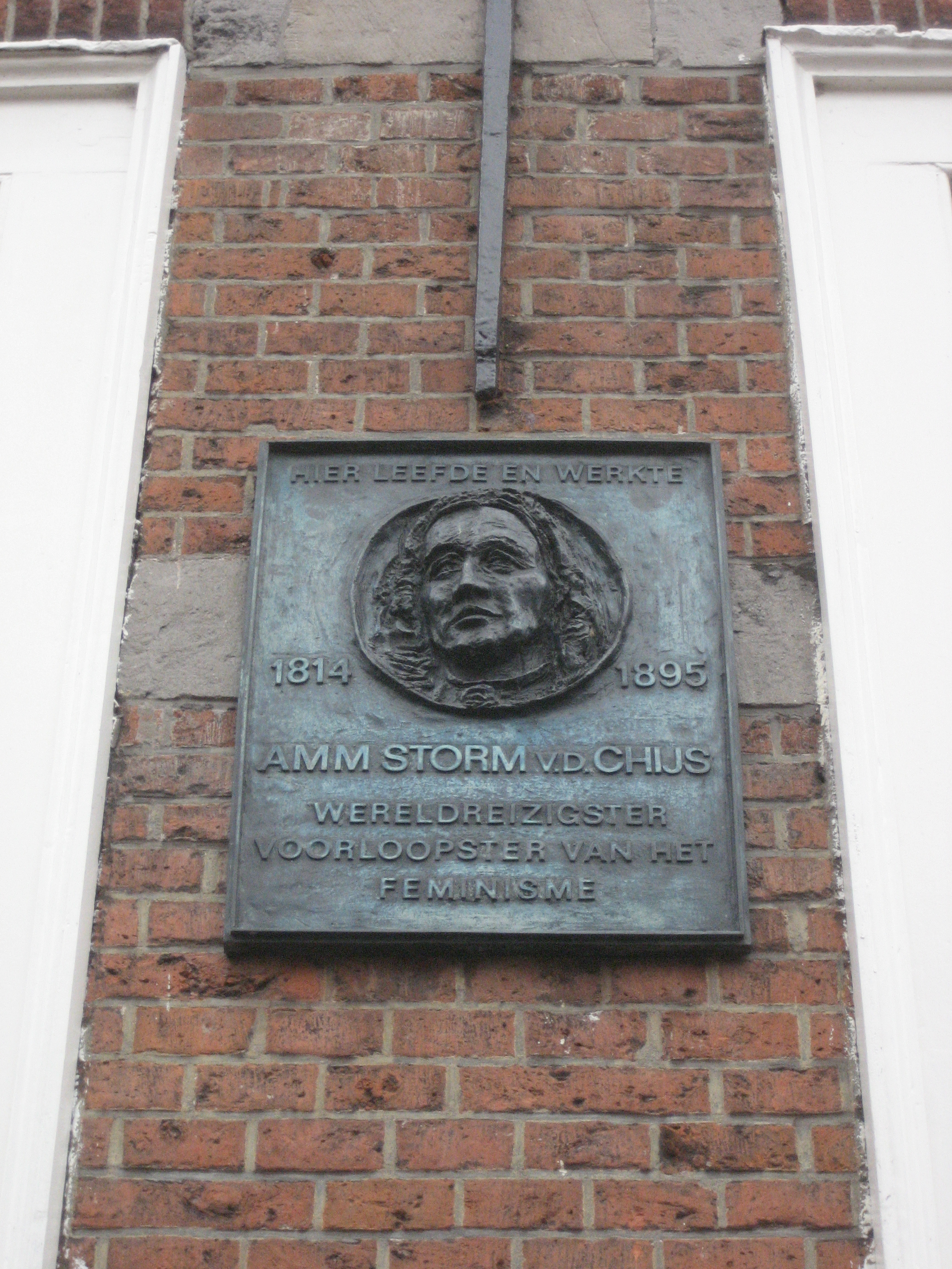 Plaque in Delft (Breestraat) commemorating Anna Maria Margaretha (Storm) van der Chijs (1814-1895)